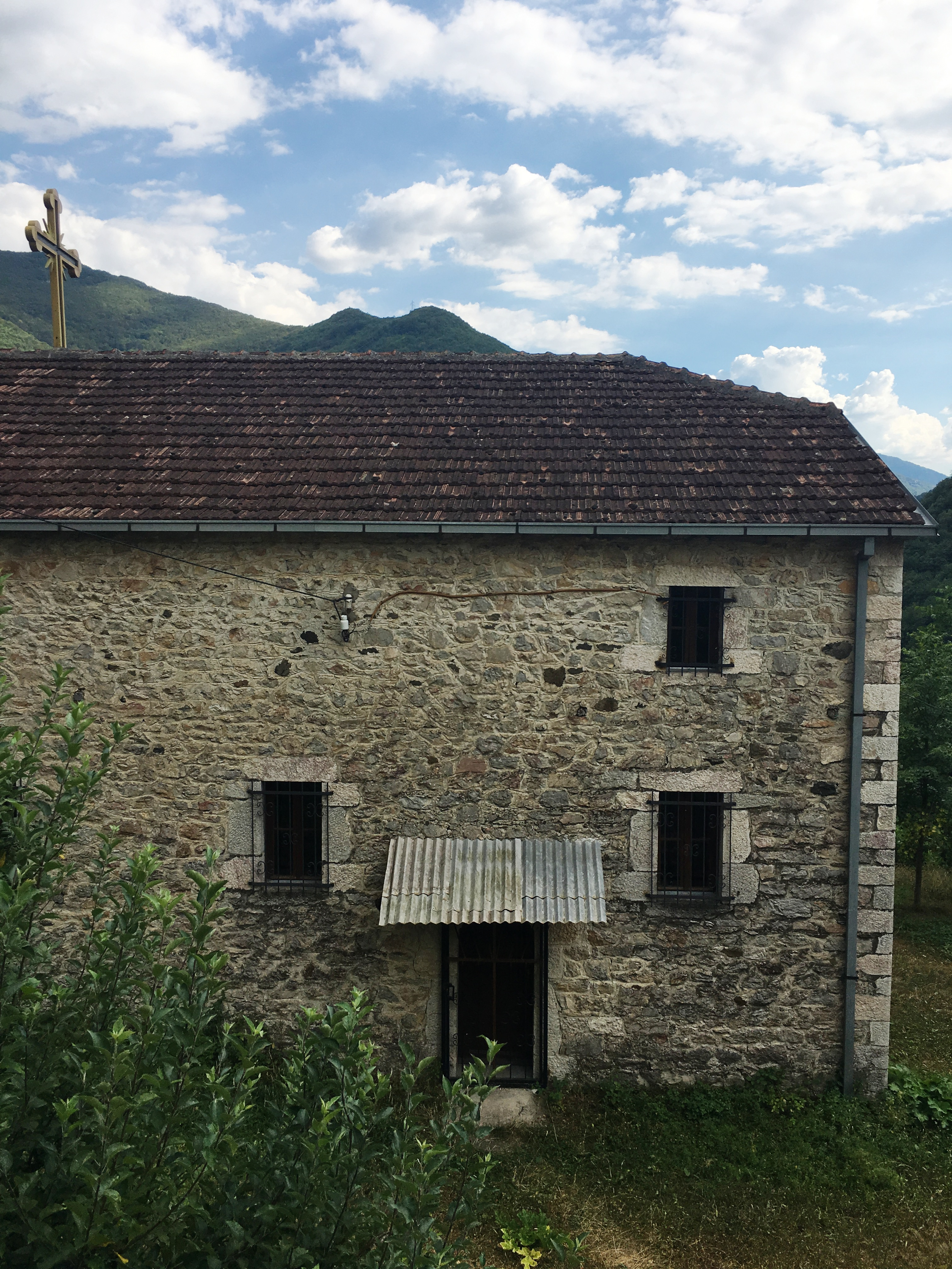 Church of the Theotokos in the village of Janče